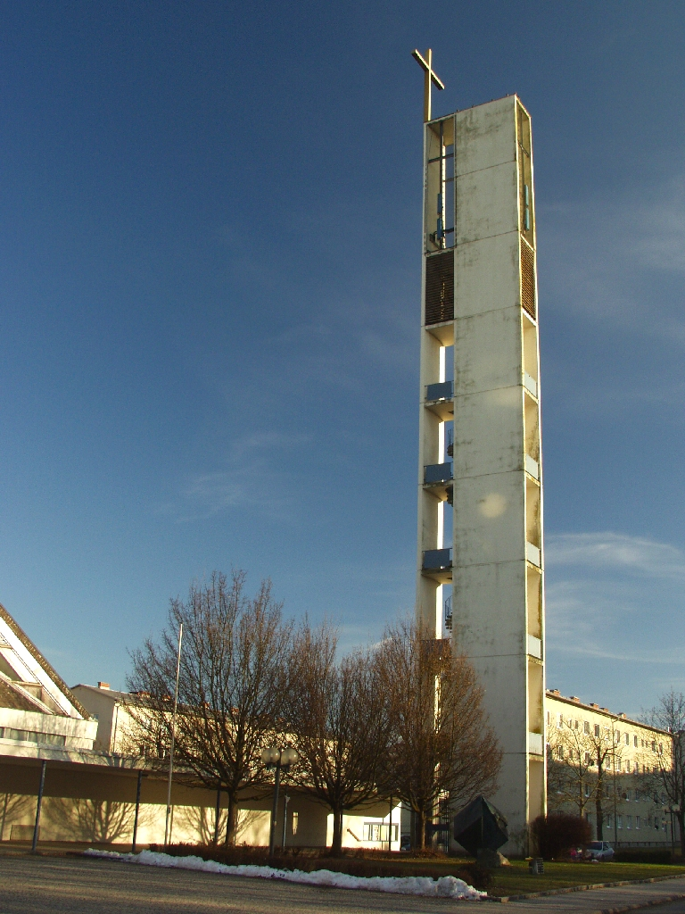 Autobahnkirche Haid Tower (height: 42 m)